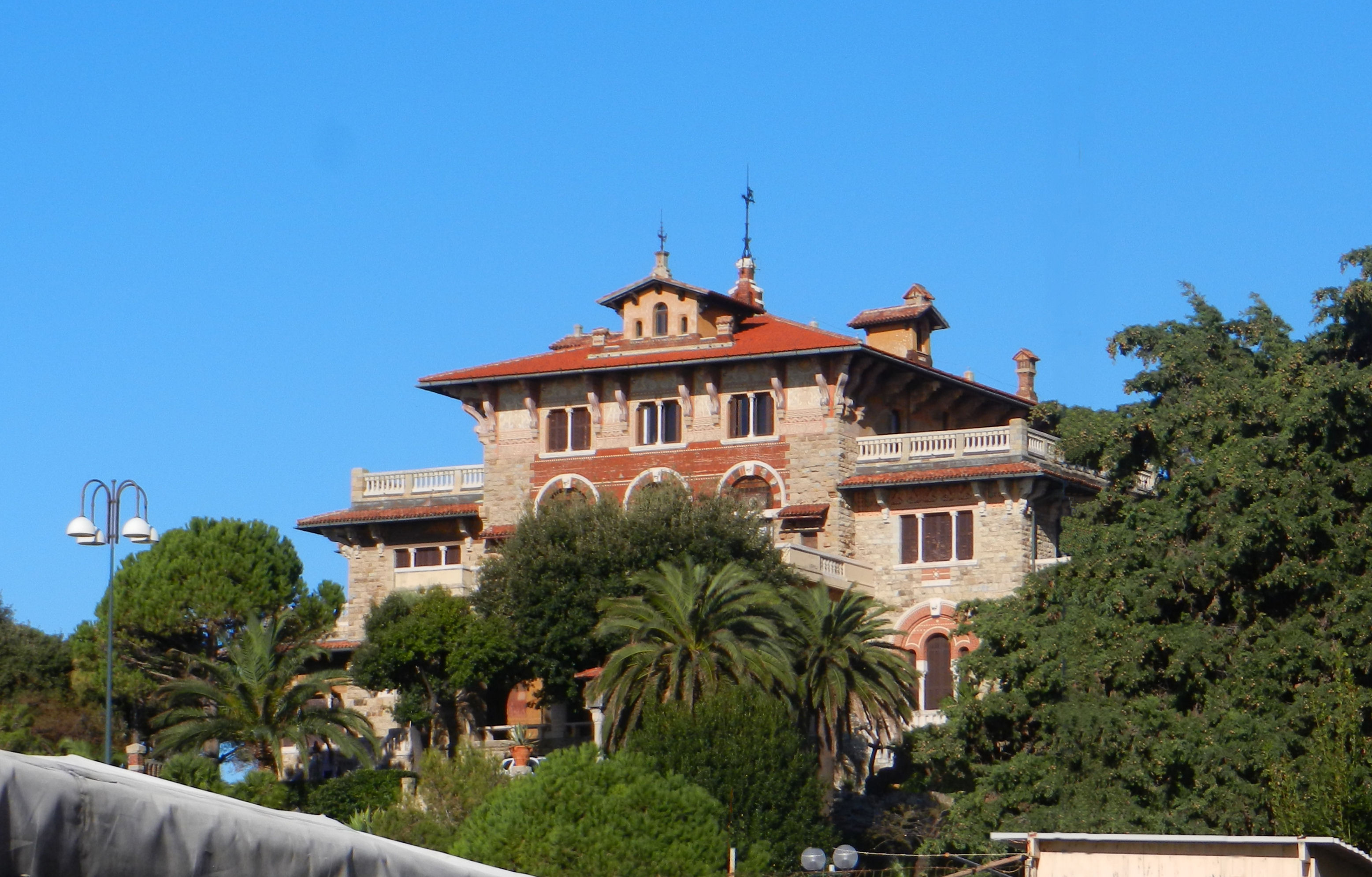 Genoa (Italy), quarter of Albaro, villa Canali Gaslini